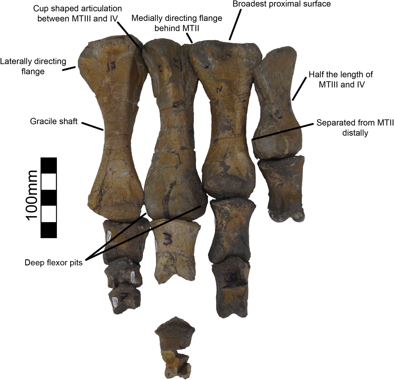 Nothronychus (UMNH VP16420) right pes. Right pes including metatarsals I-IV and associated phalanges articulated as in life. Figure explanations on figure. Scale = 100 mm.